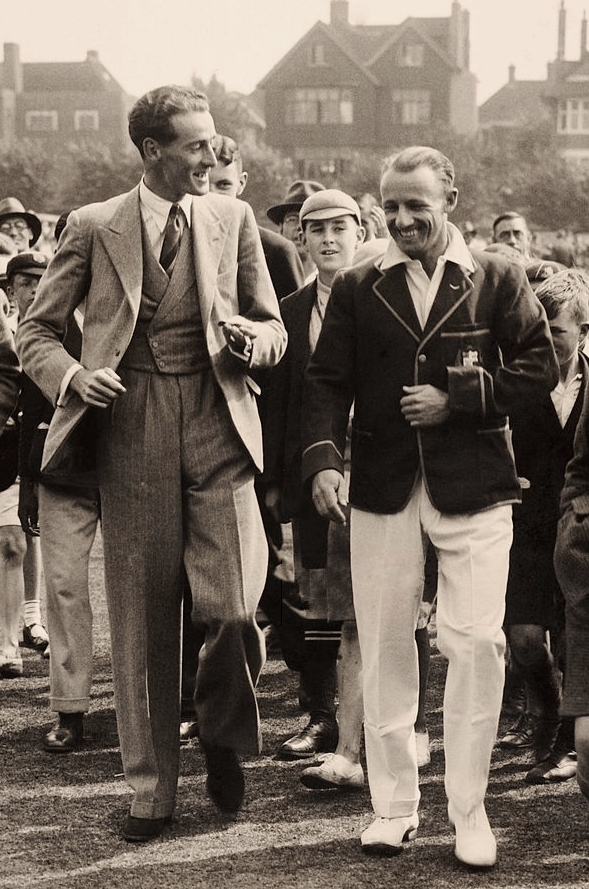 Sussex captain Alan Melville (left) with the captain of Australia, Don Bradman, prior to the match at Hove, 25th August 1934. Australia won by an innings and 35 runs.